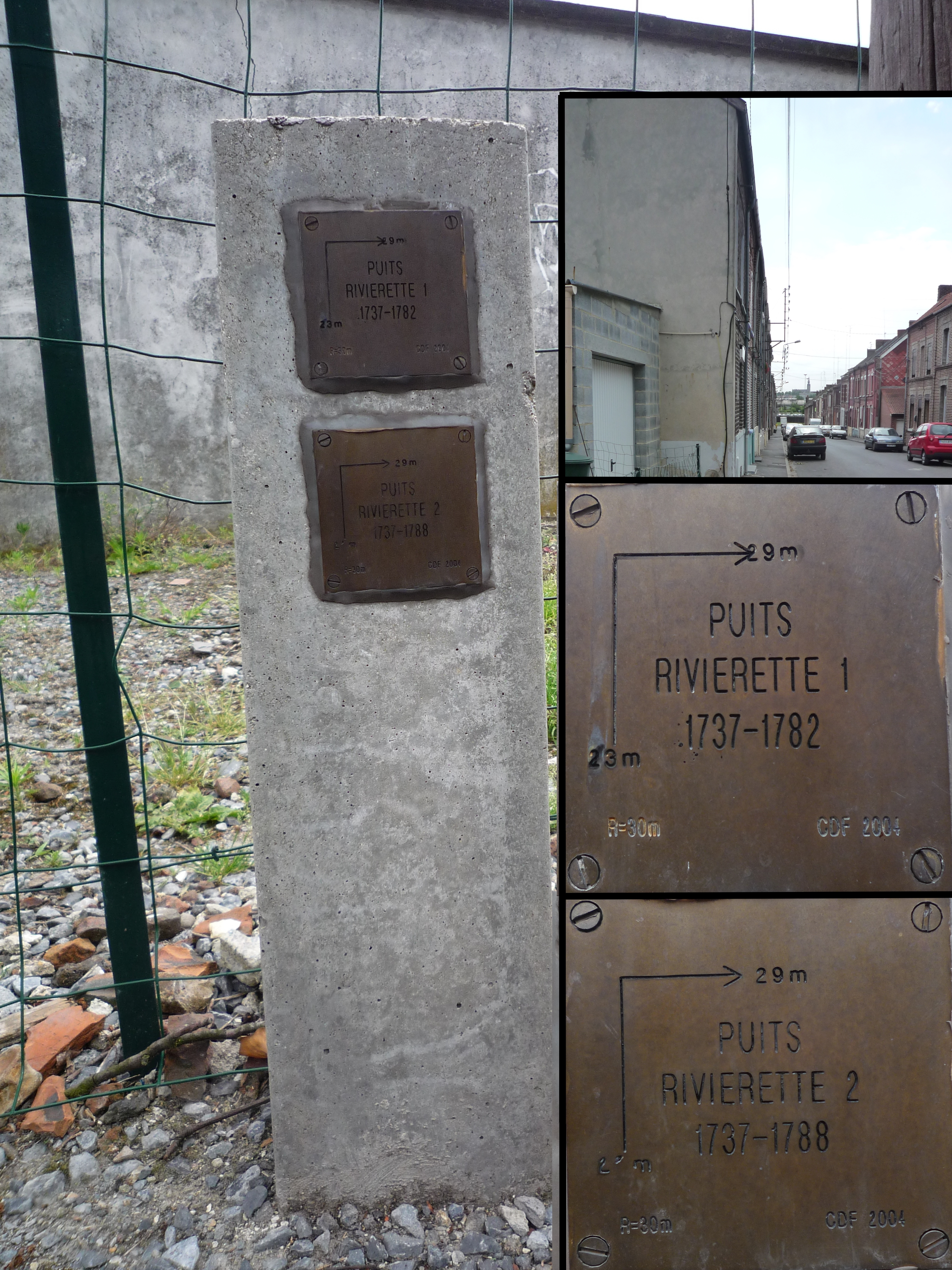 Pits Riviérette 1 and Riviérette 2 at Valenciennes, France.